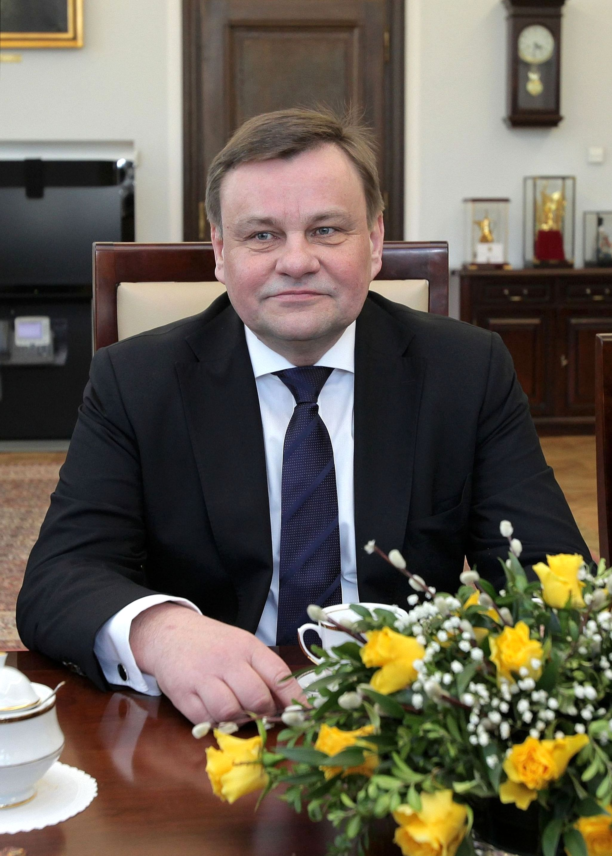 Speaker of the Seimas of the Lithuanian Republic Vydas Gedvilas in the Polish Senate